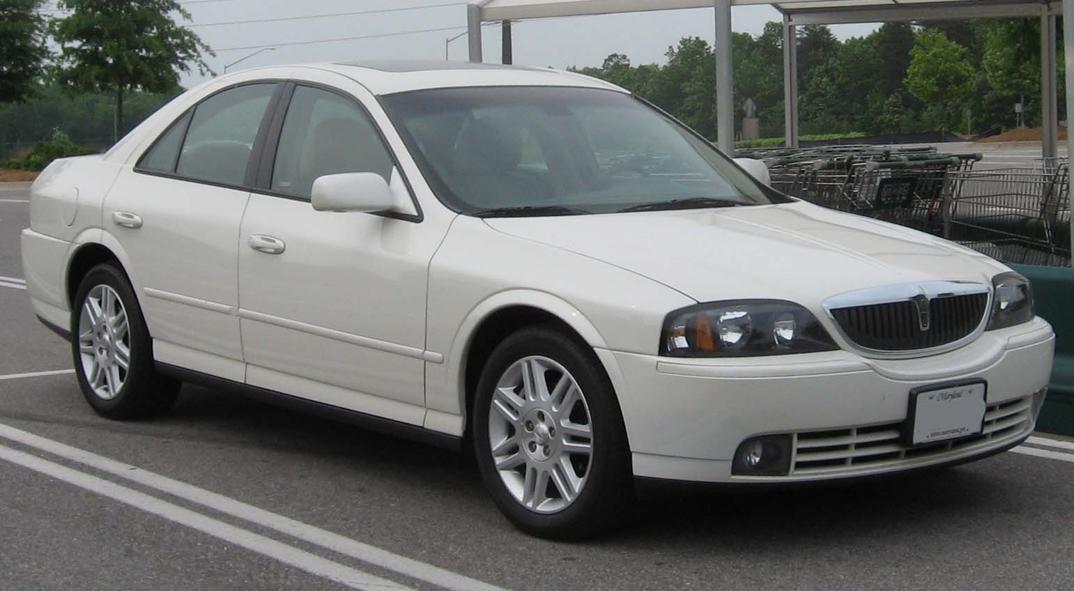 2003-2005 Lincoln LS photographed in USA.